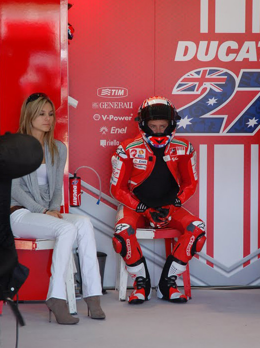 Casey and Adriana Stoner 2009 Valencia